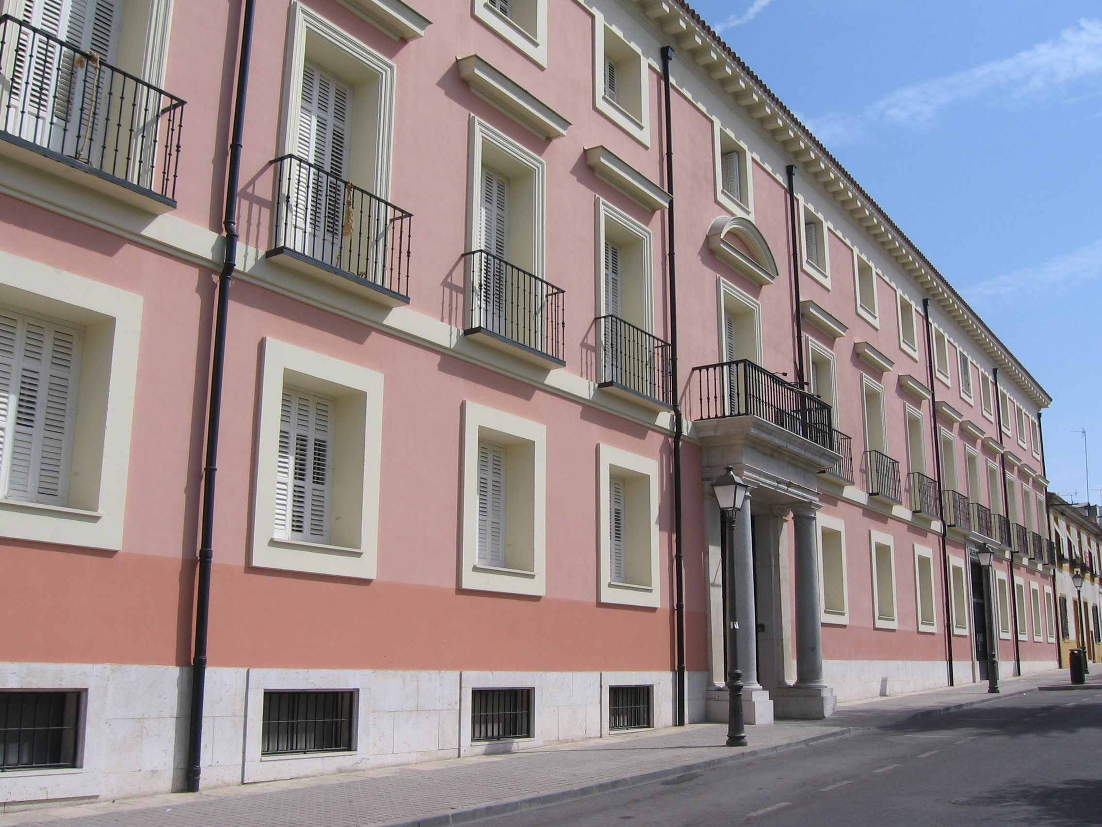 Formerly Manuel de Godoy's Palace in Calle del Príncipe, Aranjuez. Today a school, and scene of a popular tourchlit fiesta (in September) in commemoration of the Mutiny (motín) of Aranjuez. He formerly resided in the Palacio del Príncipe de la Paz (now a hotel opposite the palace).